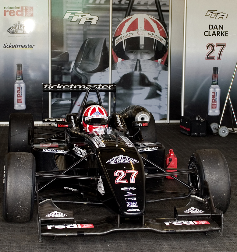 Dan Clarke at Silverstone 9th October 2005 Angus Matheson